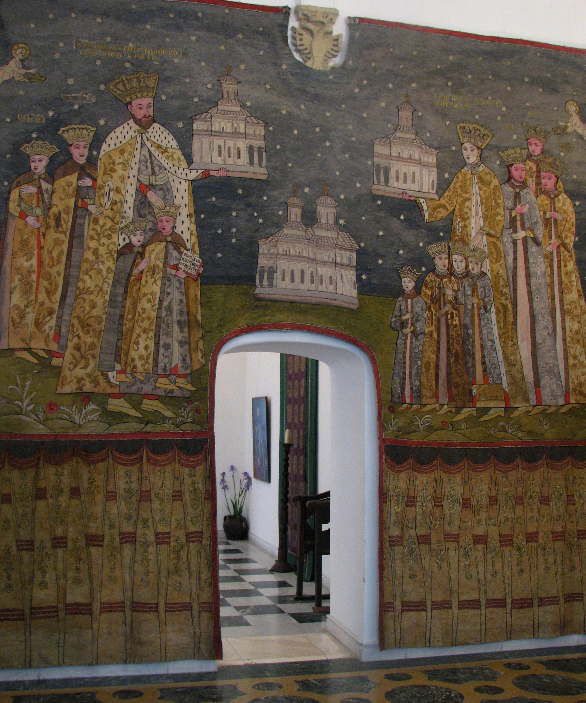 silk embroidery, made by Nora Steriadi in 1930-1932, after the votive picture from Hurezi Monastery.